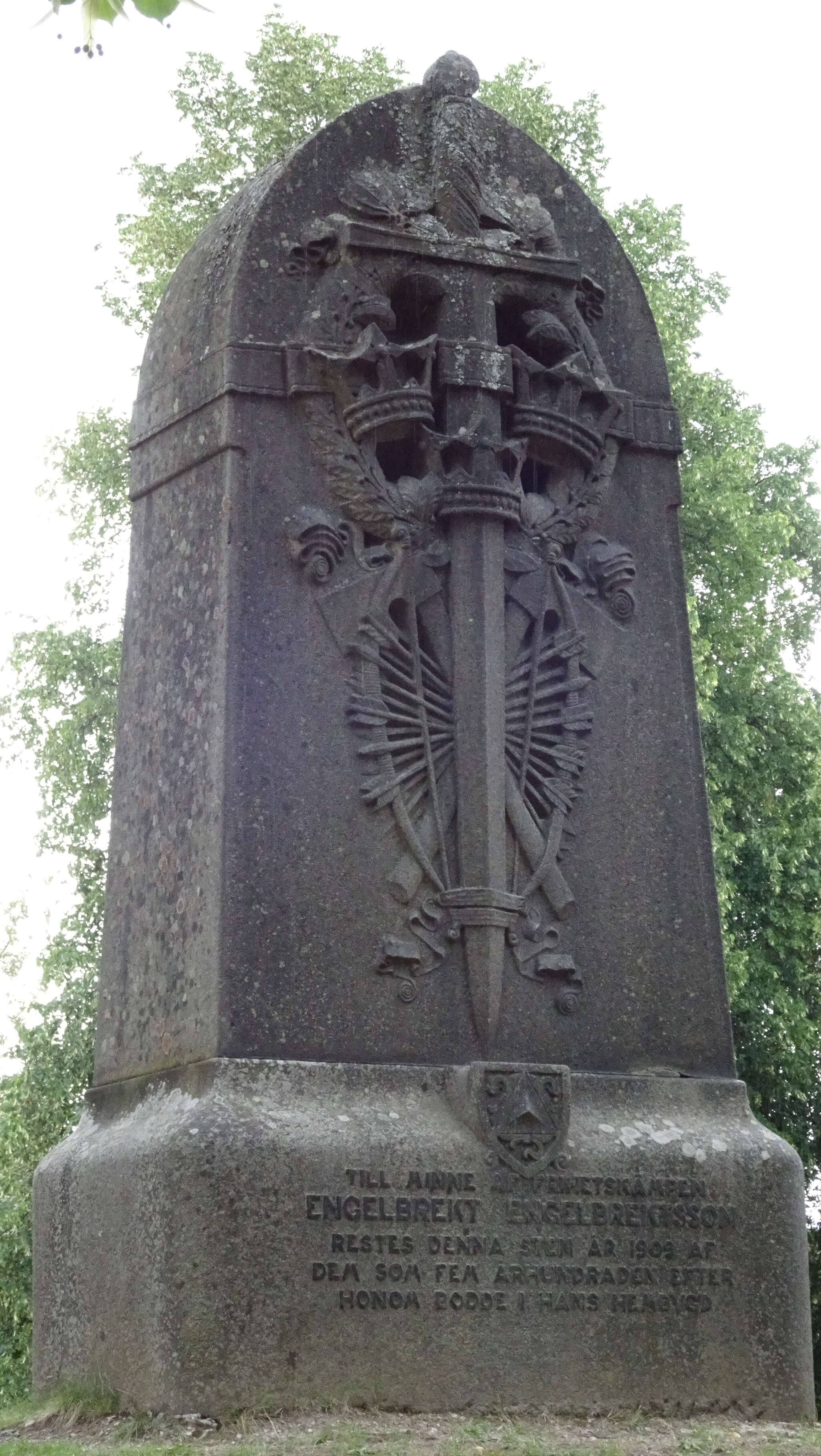 Memorial stone after Engelbrekt Engelbrektsson (Archaelogical monument number RAÄ Norberg 56:1) in Tingshusparken, Norberg, Västmanland, Sweden.